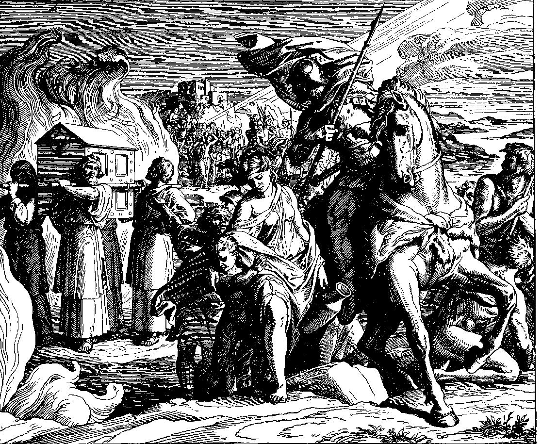 Woodcut for "Die Bibel in Bildern", 1860.